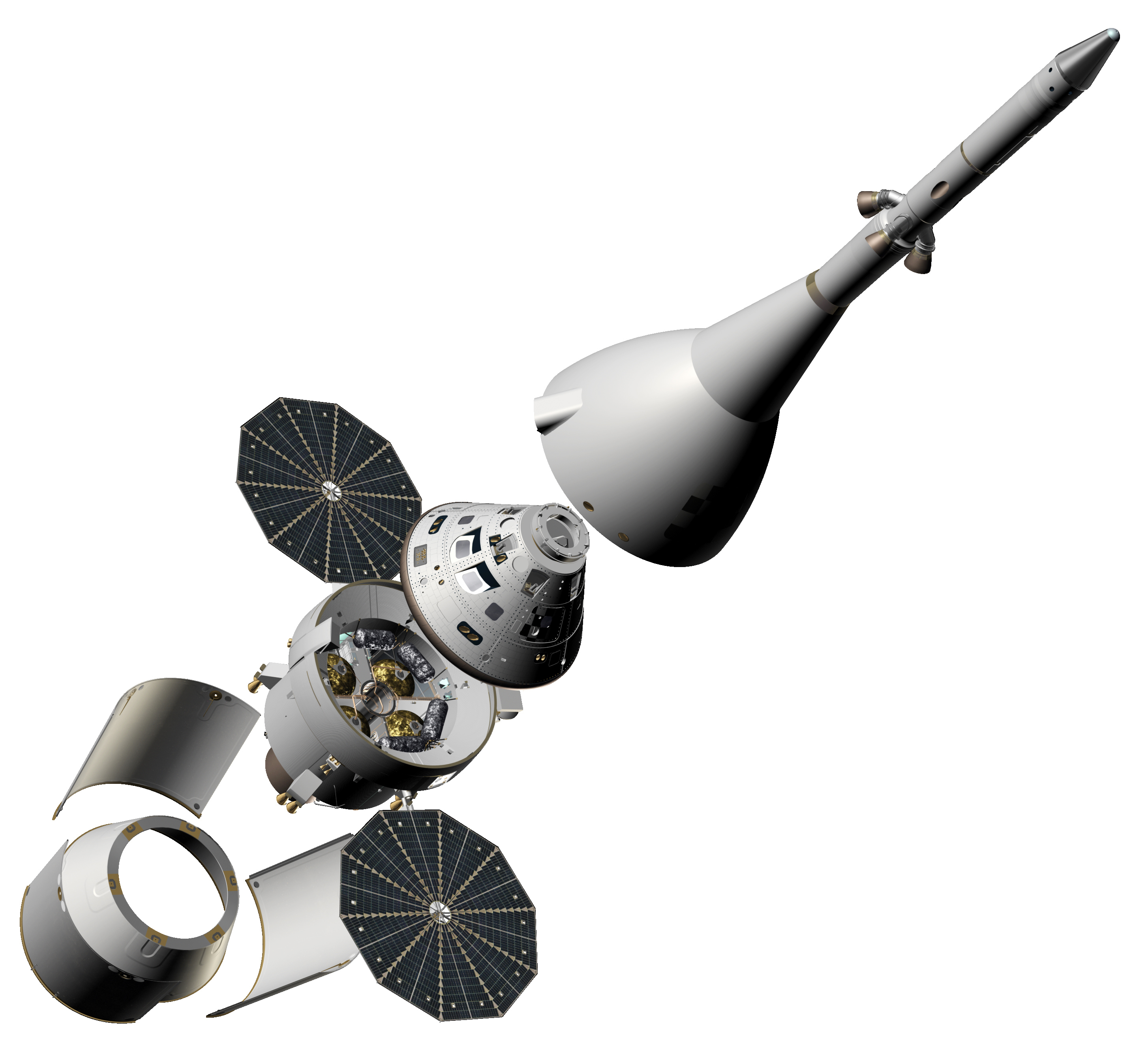 Exploded view of NASA's Orion spacecraft in its launch configuration. This is a revised design from around May 2009. From left: spacecraft adaptor and launch shrouds, service module, crew module, and launch abort system.